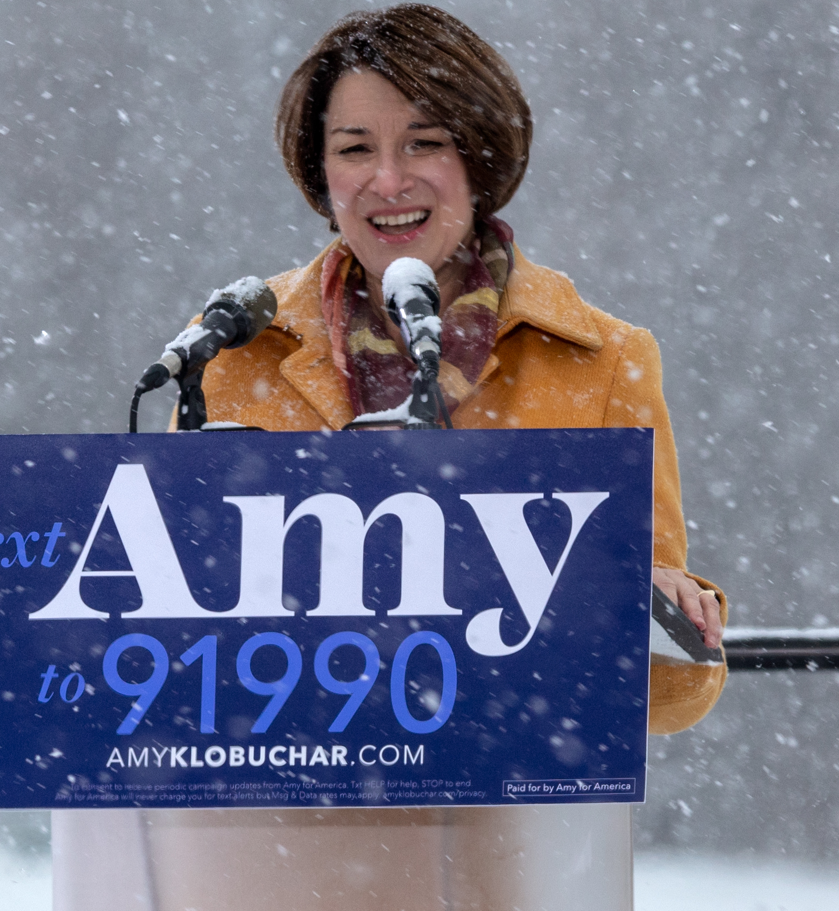 Senator Amy Klobuchar made her announcement to run for president in 2020 on a snowy day Sunday at Boom Island Park in Minneapolis, Minnesota.